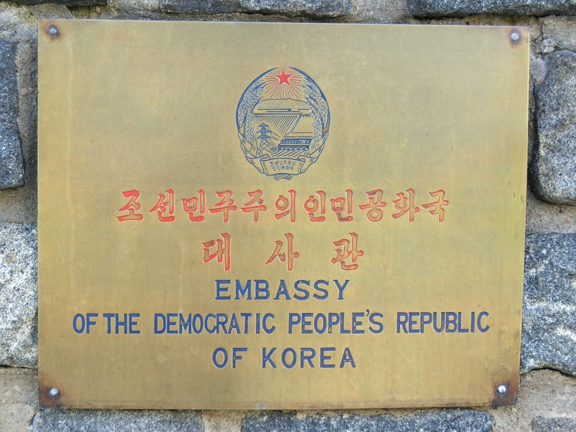 Coat of arms at the fence of North Korean Embassy in Prague, Czechia